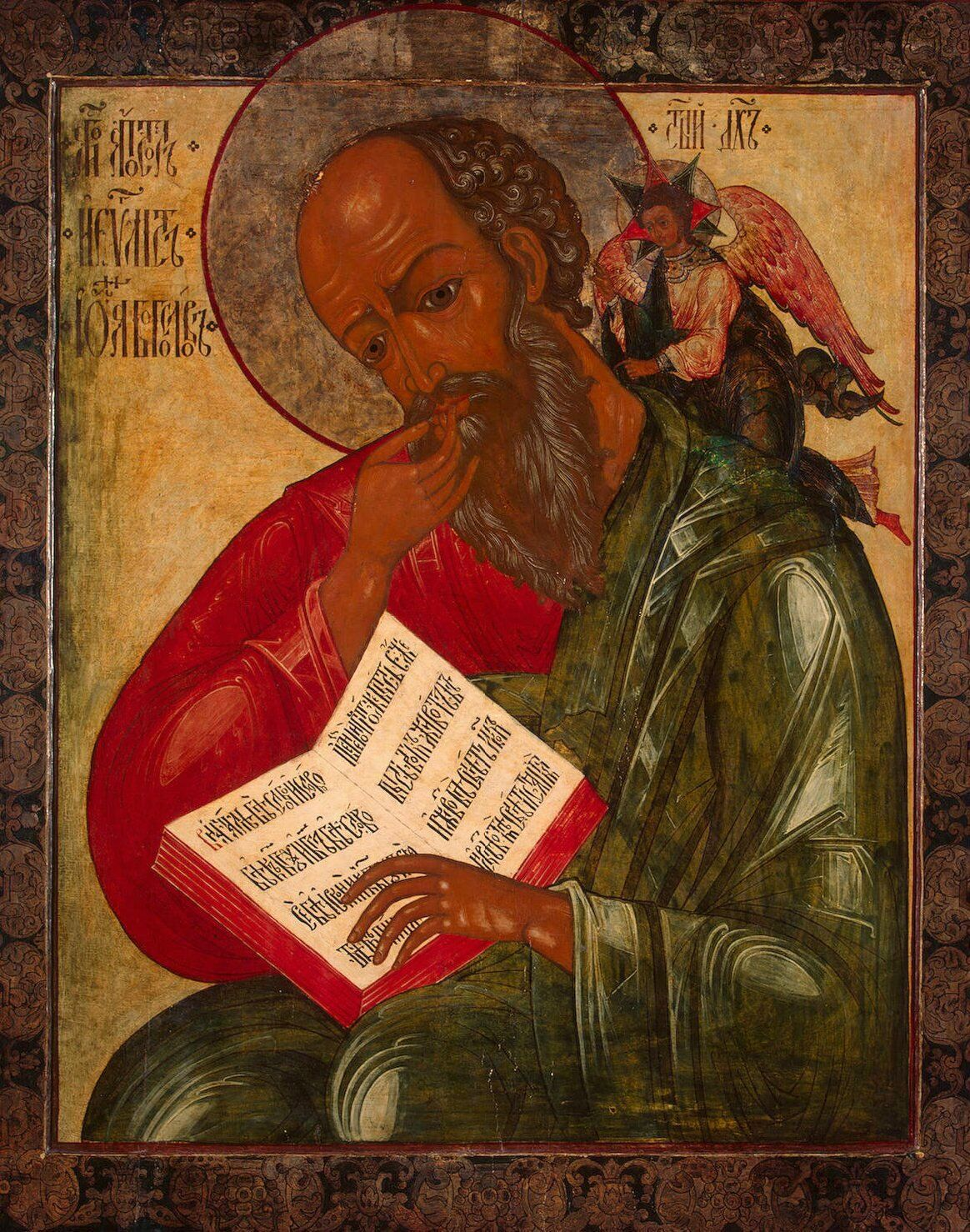 John the Evangelist touches his mouth with the right hand – this is the symbol of the silence; the left hand of the apostle points to the text of the Gospel of John. The angel – the symbol of the Holy Spirit and the wisdom coming from God – is depicted on the right, above the shoulder of John.